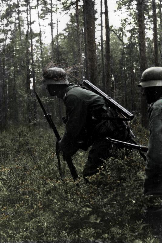 This is a retouched picture, which means that it has been digitally altered from its original version. Modifications: recolored. The original can be viewed here: Bundesarchiv Bild 101I-009-0900-29, Russland, Infanteristen im Wald.jpg: . Modifications made by Ruffneck88. Russland, Infanteristen im Wald Photographer Rutkowski, HeinzArchive description Description provided by the archive when the original description is incomplete or wrong. You can help by reporting errors and typos at Commons:Bundesarchiv/Error reports. Sowjetunion.- Zwei deutsche Soldaten (u.a. Soldat mit aufgepflanztem Bajonett) in geduckter Haltung in einem Waldgelände; PK 621Title Russland, Infanteristen im Wald Depicted place RussiaDate 21 June 1941date QS:P571,+1941-06-21T00:00:00Z/11Collection German Federal Archives Native nameDas BundesarchivLocationKoblenz (headquarters)Coordinates50° 20′ 32.71″ N, 7° 34′ 21.22″ E Established1946Web page control : Q685753 VIAF: 137346469 ISNI: 0000 0004 0555 2728 LCCN: n92025526 NLA: 36455393 Open Library: OL55798A WorldCat institution QS:P195,Q685753Current location Propagandakompanien der Wehrmacht - Heer und Luftwaffe (Bild 101 I)Accession number Bild 101I-009-0900-29 Source This image was provided to Wikimedia Commons by the German Federal Archive (Deutsches Bundesarchiv) as part of a cooperation project. The German Federal Archive guarantees an authentic representation only using the originals (negative and/or positive), resp. the digitalization of the originals as provided by the Digital Image Archive.